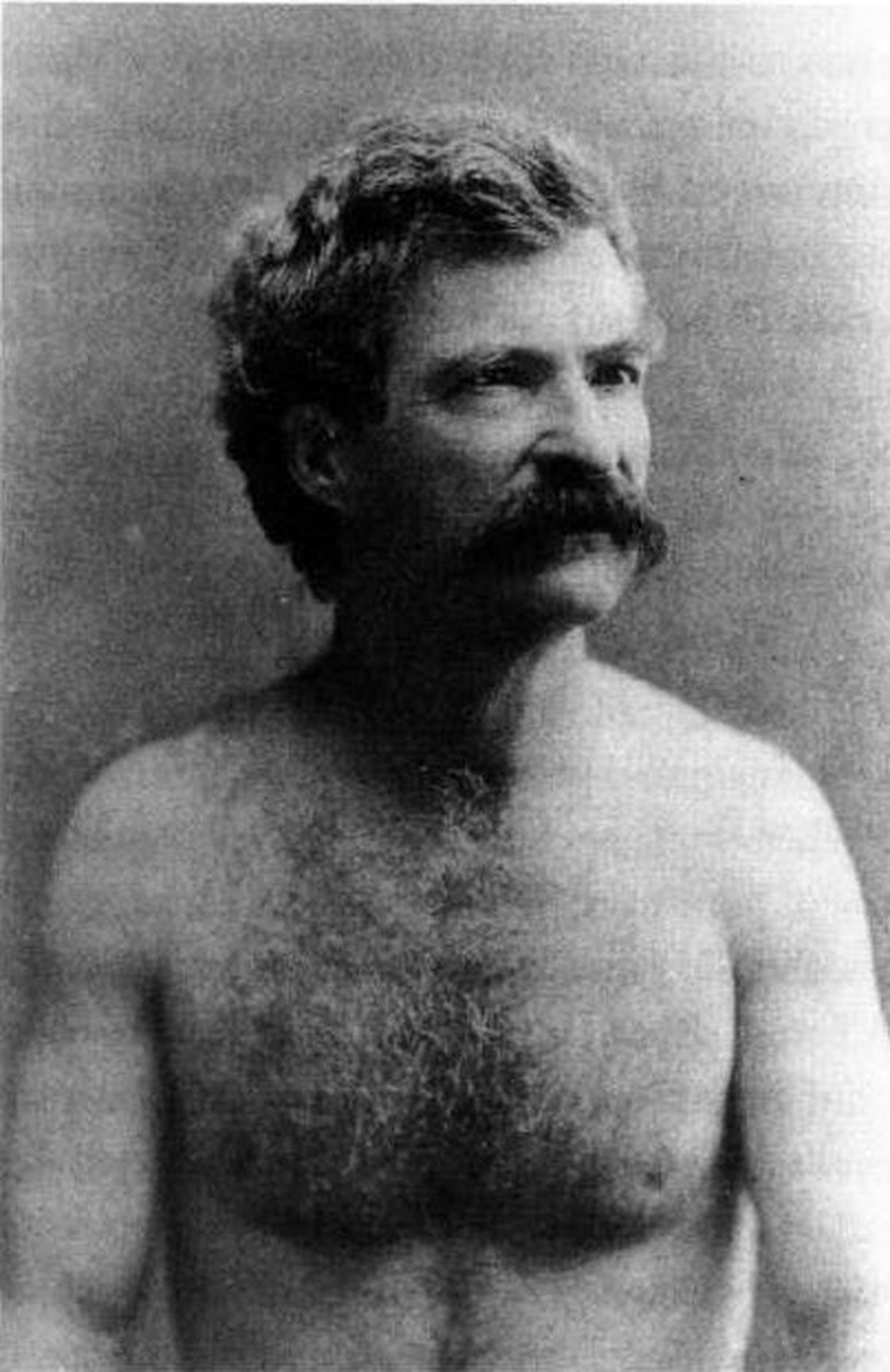 Mark Twain (1835–1910), Shirtless